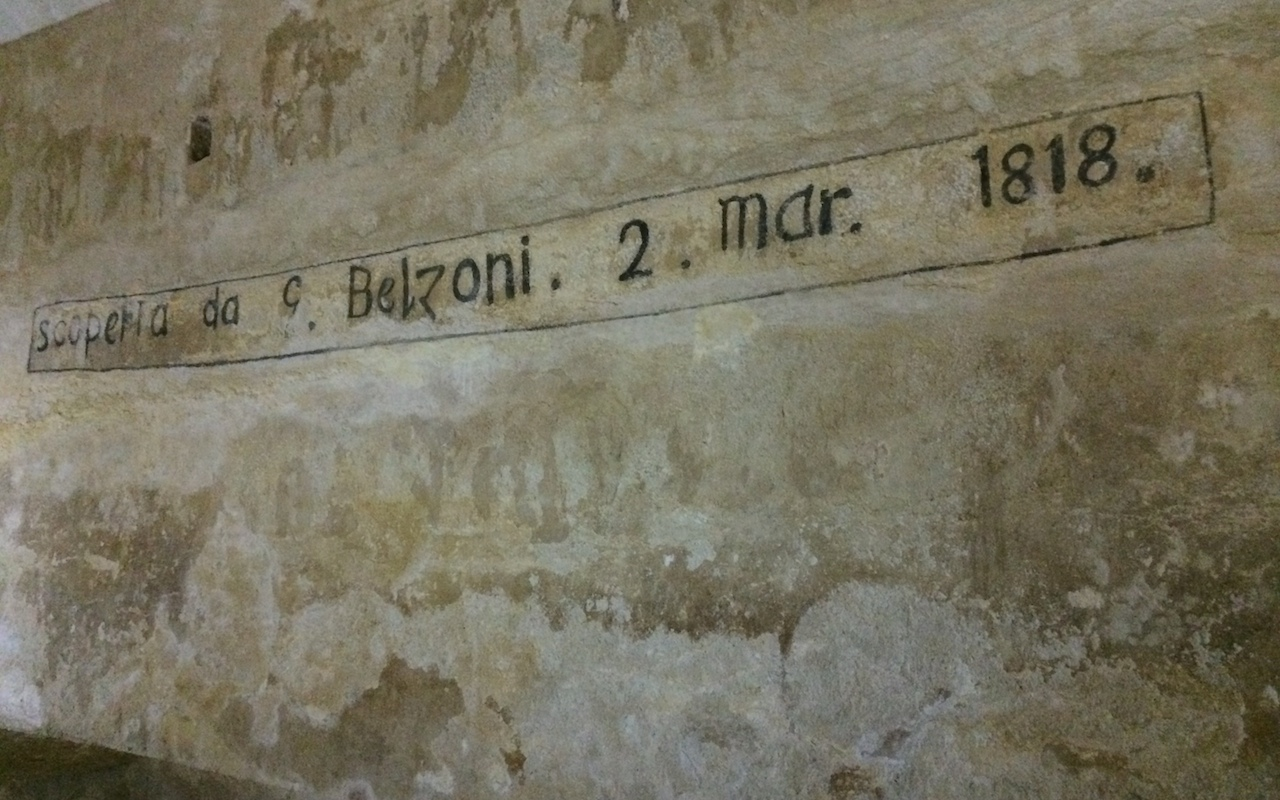 Giovanni Belzoni was the first westerner to enter the Pyramid of Khafre at